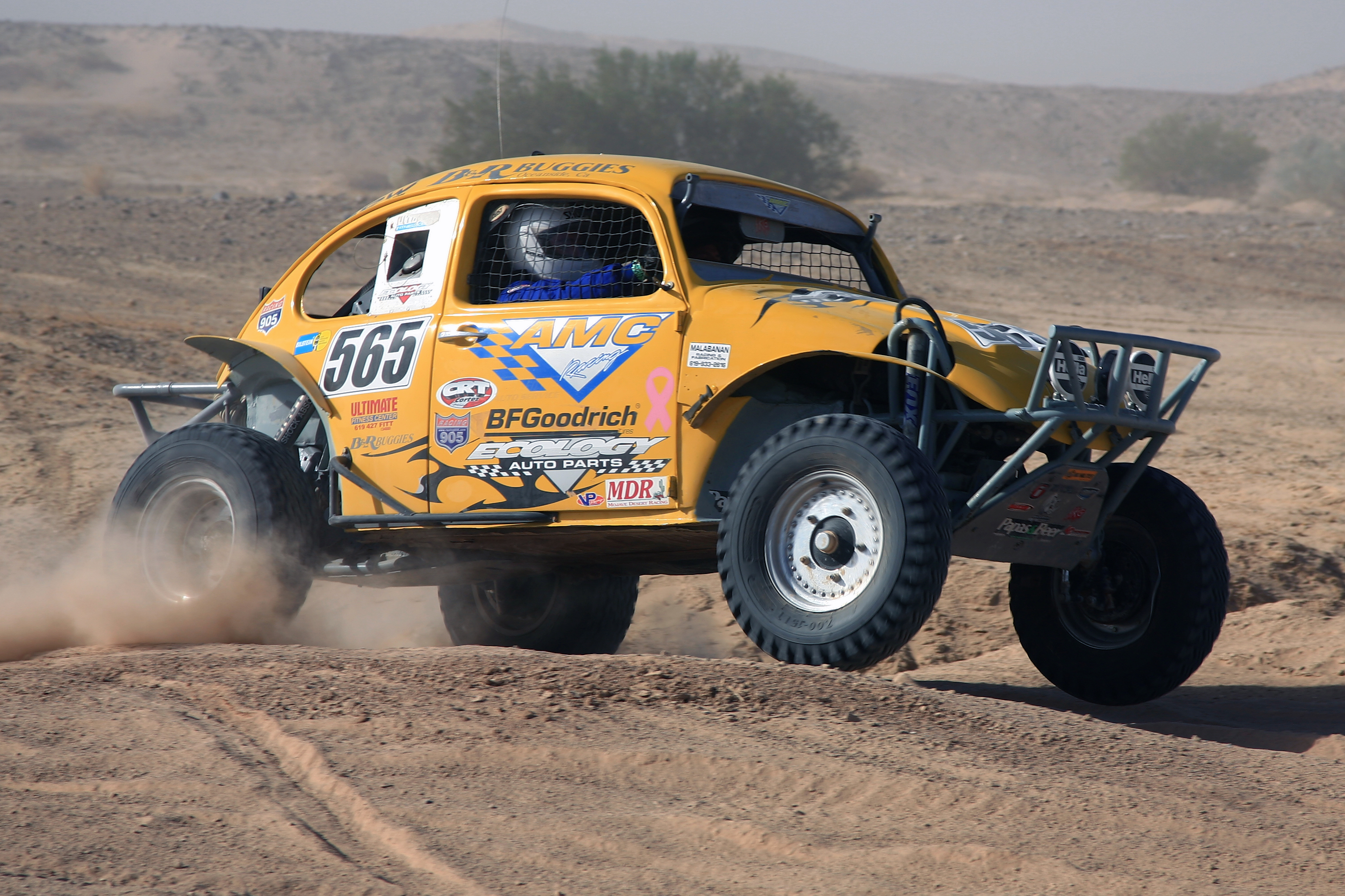 A "Baja Bug" Races in the Mojave Desert Race (MDR) Series in Southern California.